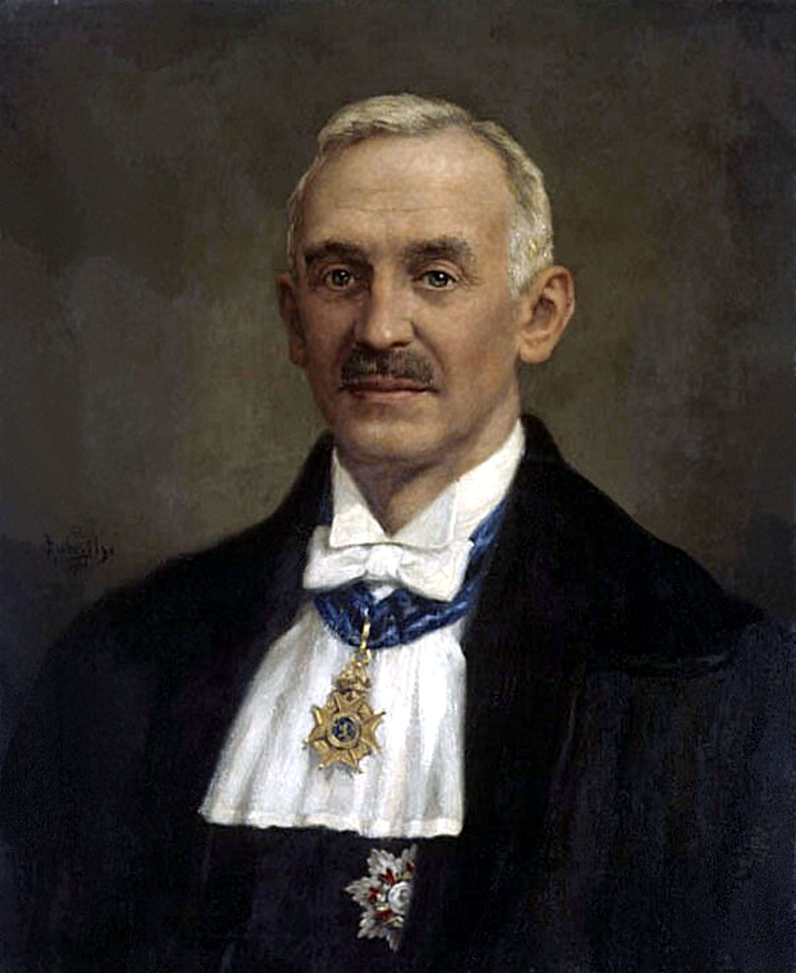 Painting of Utrecht professor Hugo Rudolph Kruyt, by Dutch painter Johannes Gabrielse